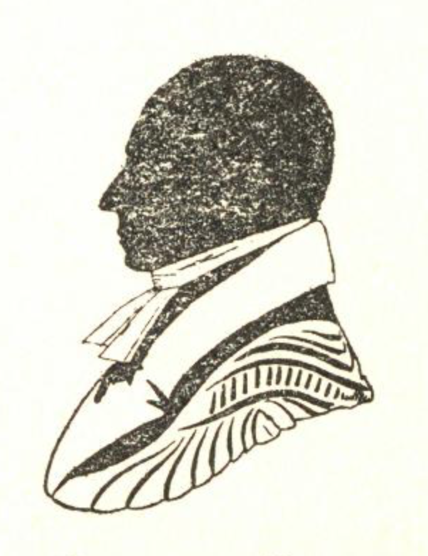 Rev. Theophilus Desbrisay (1754-1823), First Rector, St. Paul's Church, Charlottetown, Nova Scotia